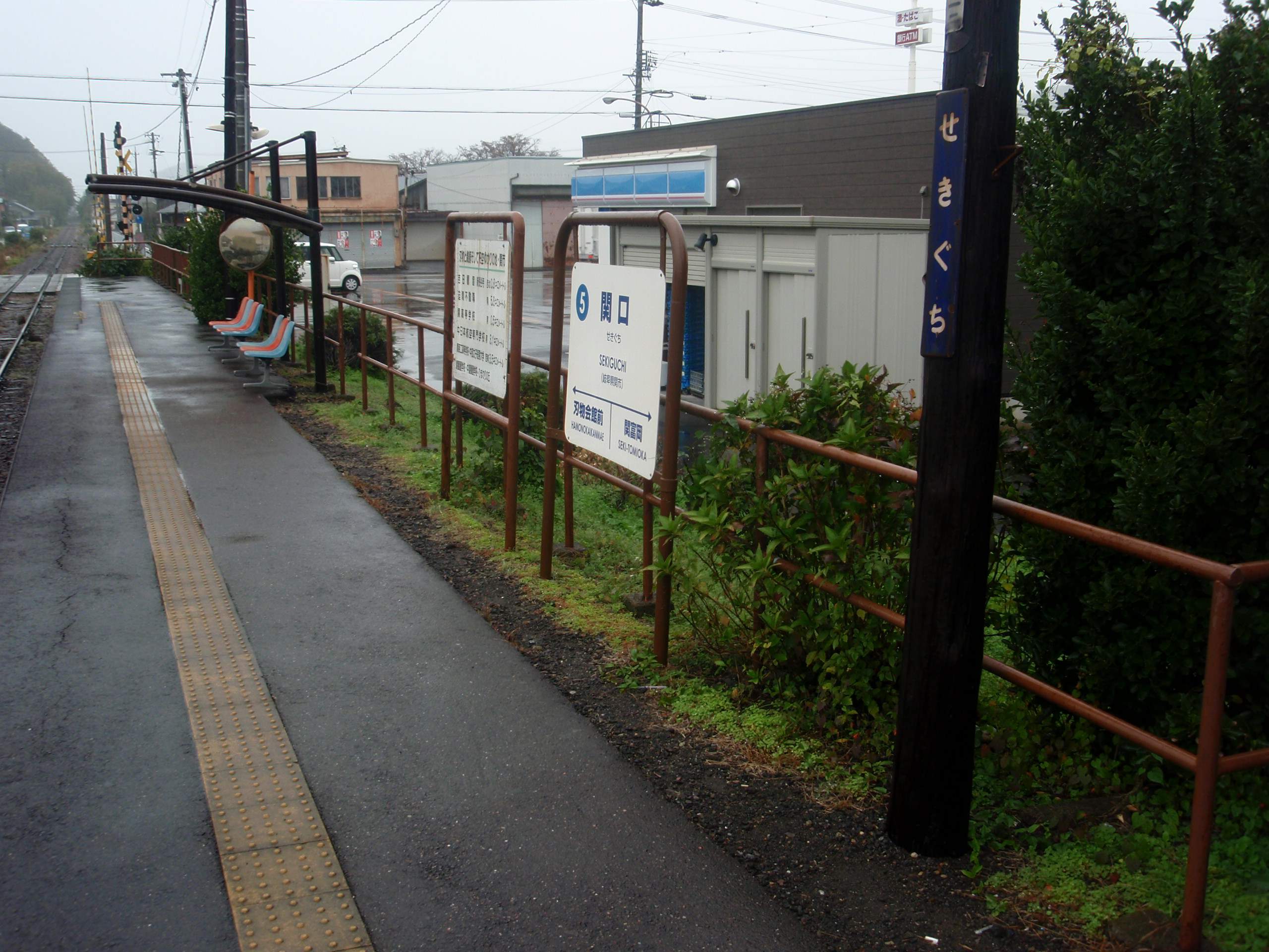 Sekiguchi Station (Nagaragawa Railway Etsumi-Nan Line), Seki city, Gifu prefecture, Japan